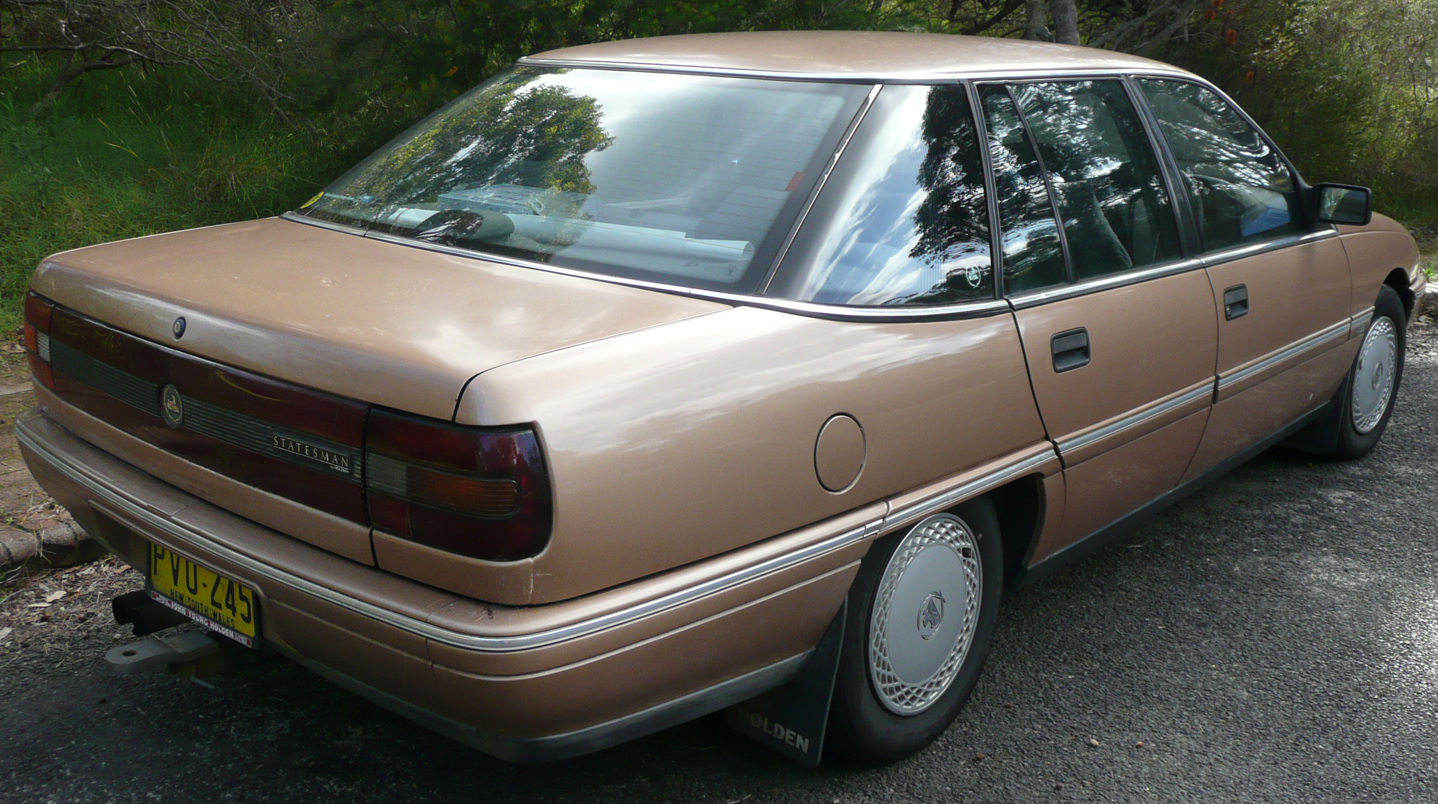 1990 Holden Statesman (VQ) sedan. Photographed in Audley, New South Wales, Australia.